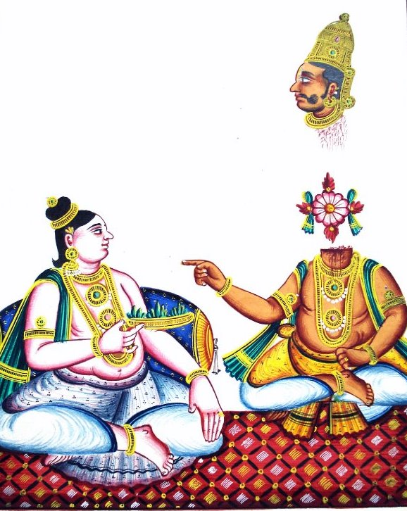 Krishna kills Shishupala